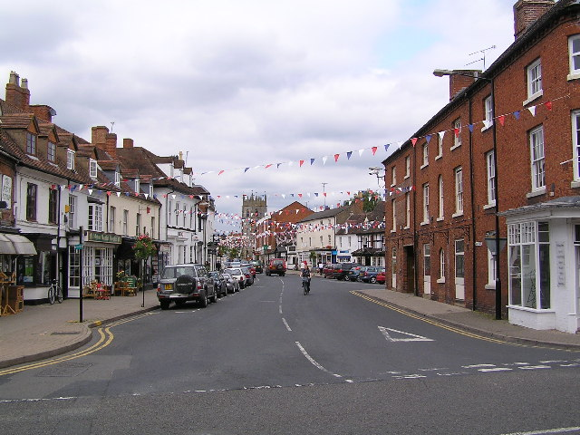 Alcester High Street complete with bunting!